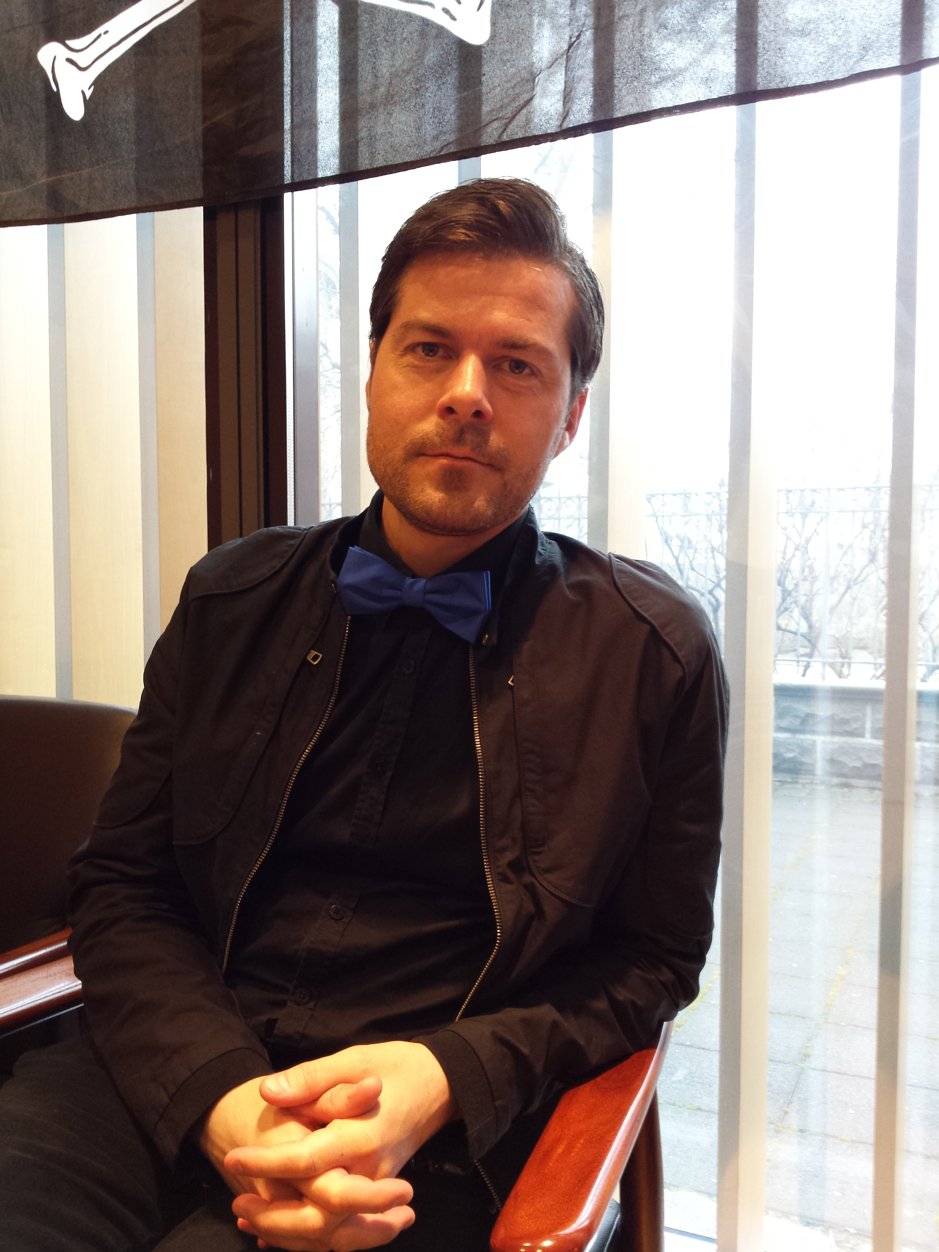 Jón Þór Ólafsson, Member of Parliament